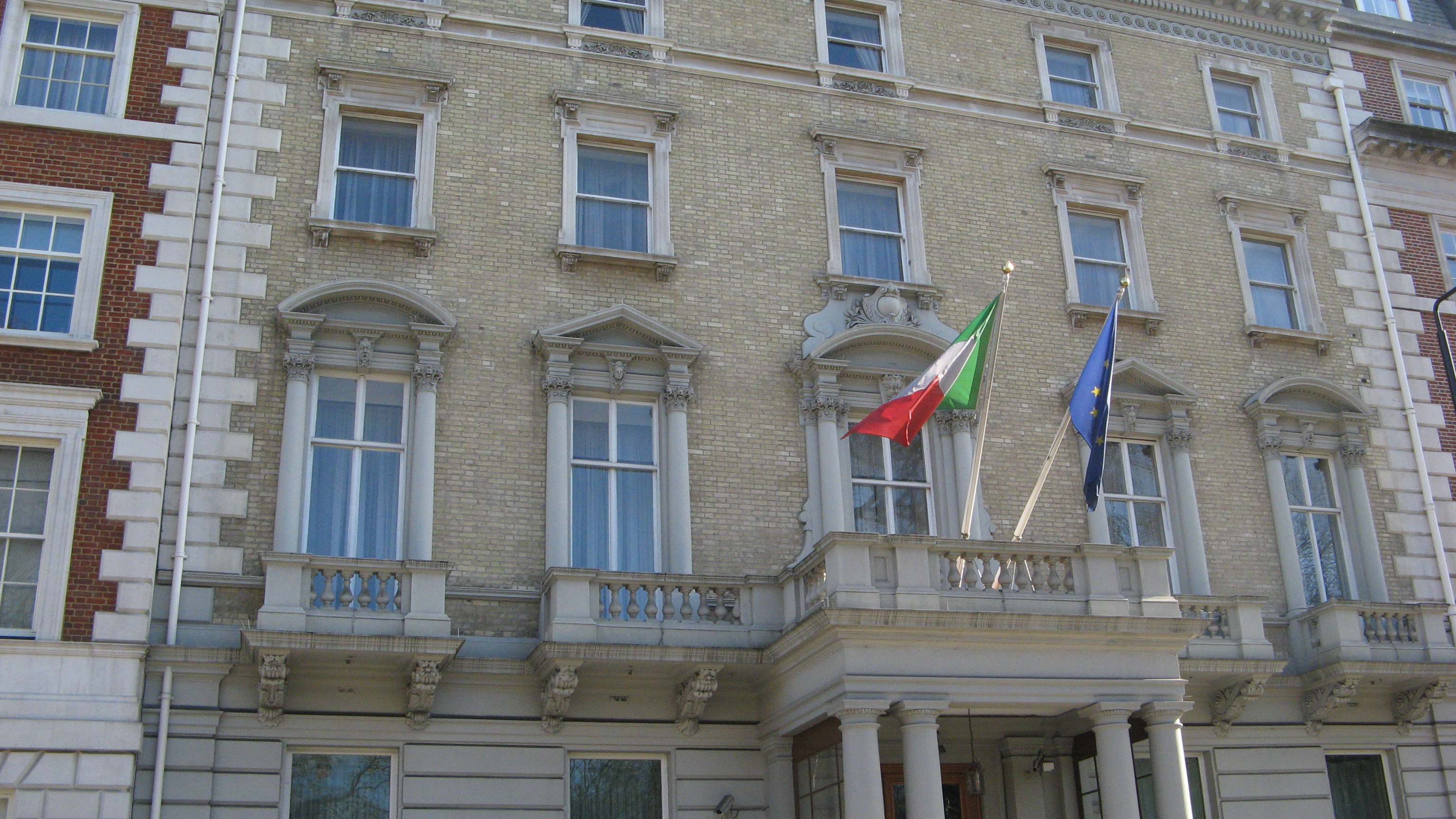 Embassy of Italy, London